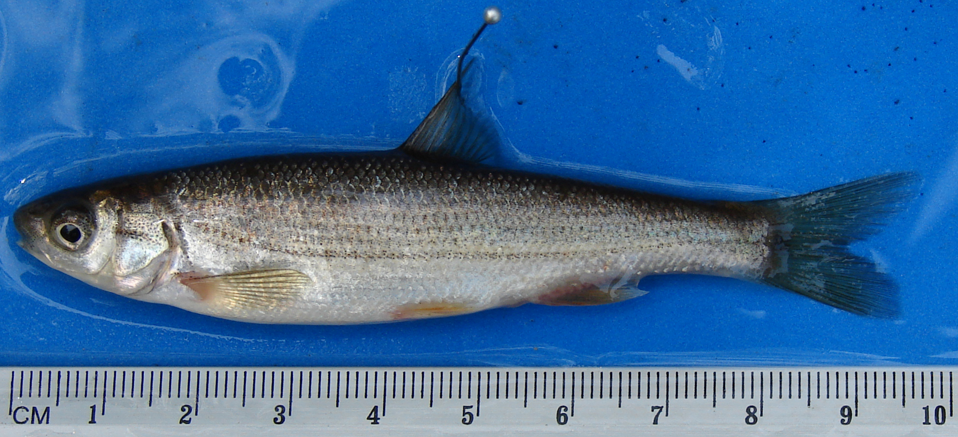 Pseudochondrostoma willkommii. Taken in Guadalquivir river, southern Spain.